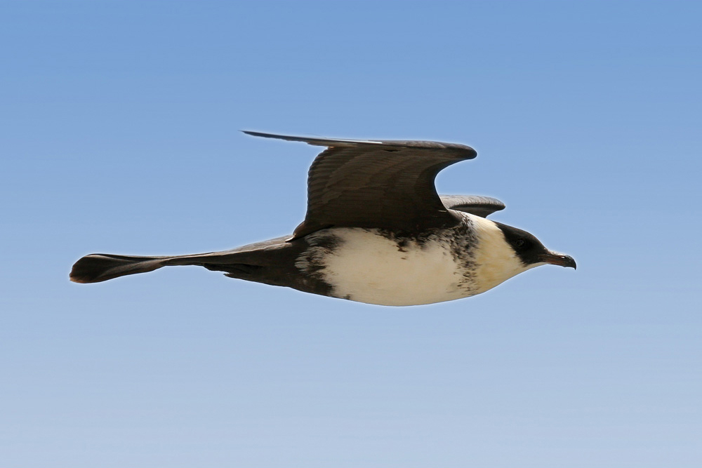 Pomarine Skua Stercorarius pomarinus, off Mauritania